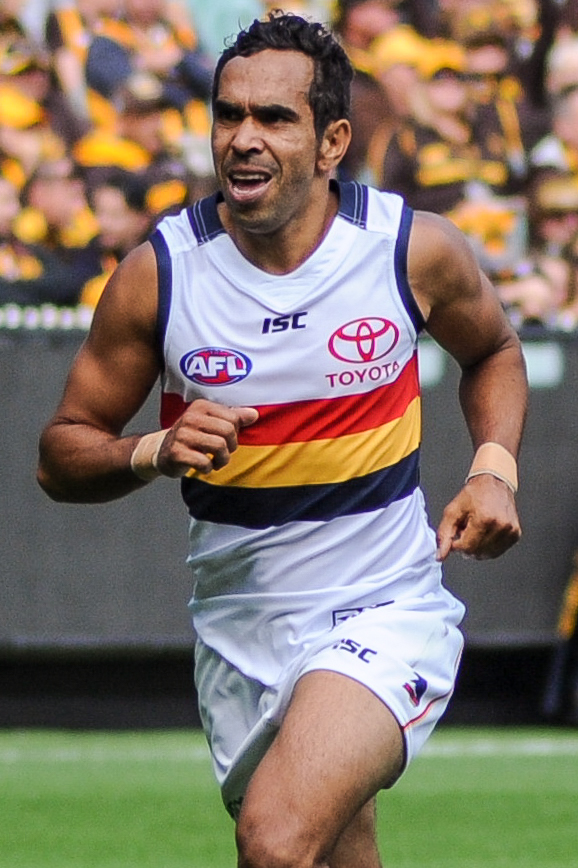 Eddie Betts during the AFL round two match between Hawthorn and Adelaide on 1 April 2017 at the Melbourne Cricket Ground in Melbourne, Victoria.